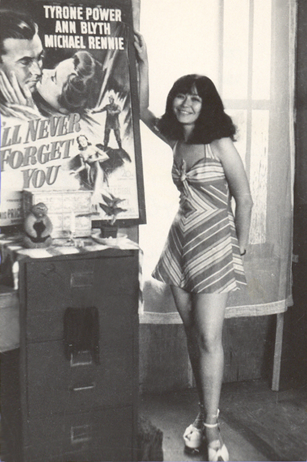 A picture of Big Apple Comix publisher Flo Steinberg by a movie poster